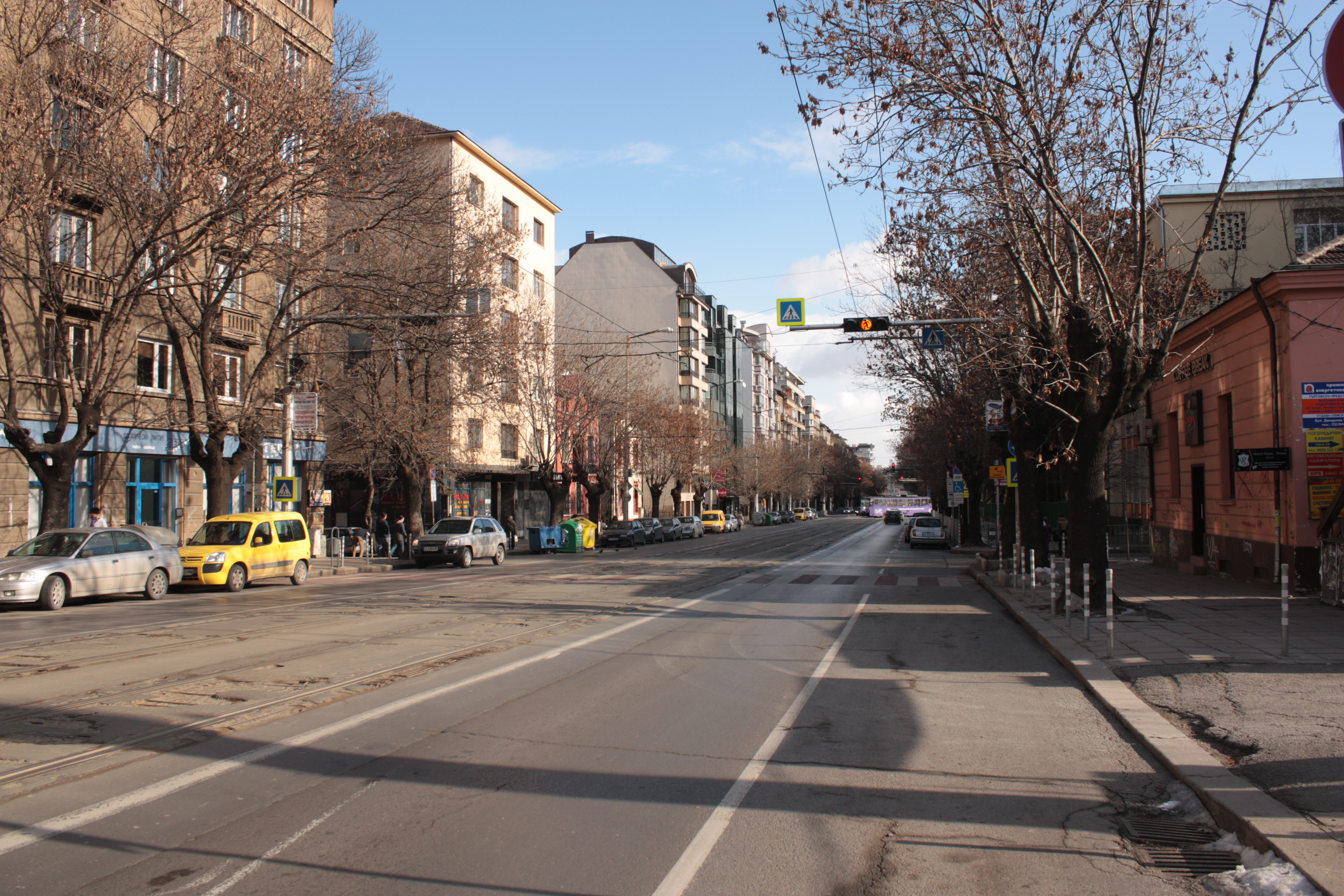 Boulevard Knyaz Dondukov, Sofia, Bulgaria